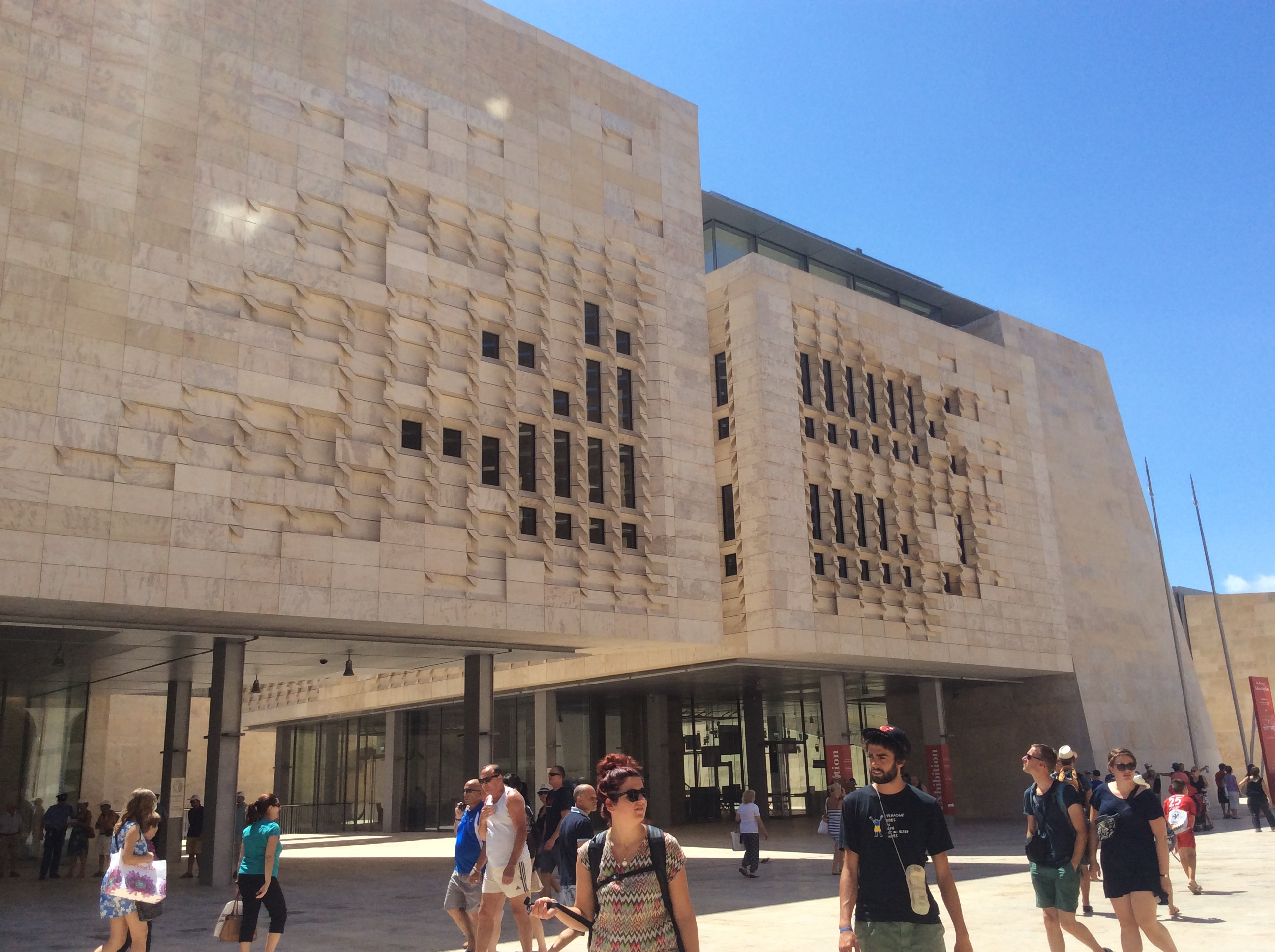 Maltese Parliament house and Pjazza Teatru Rjal